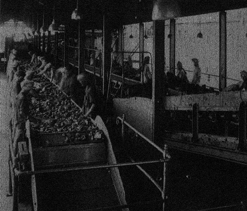 Conveyor belt for manually sorting coal. Singareni coal field, Hyderabad state